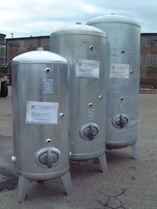 Pressure vessel